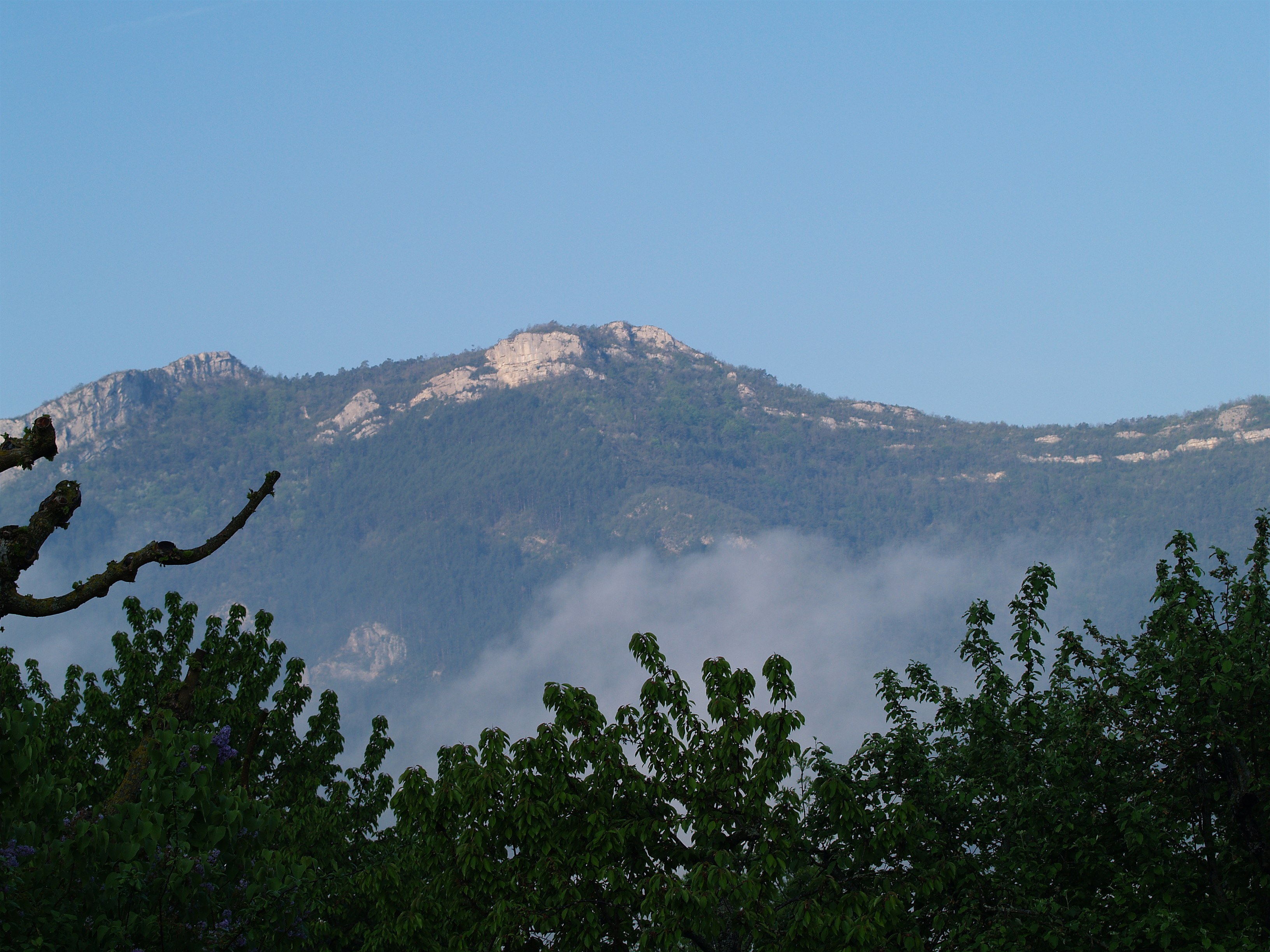 Serre Grimaud, part of the Diois massif in the French Prealps, viewed from the city of Die, at the other side of the river Drôme.